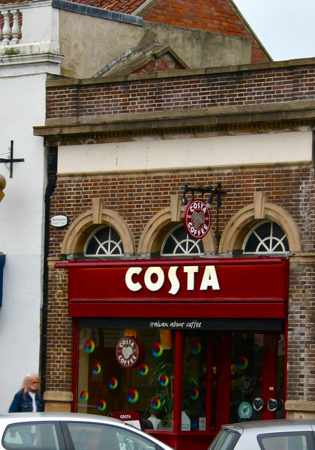 Costa Coffee Store in Northallerton